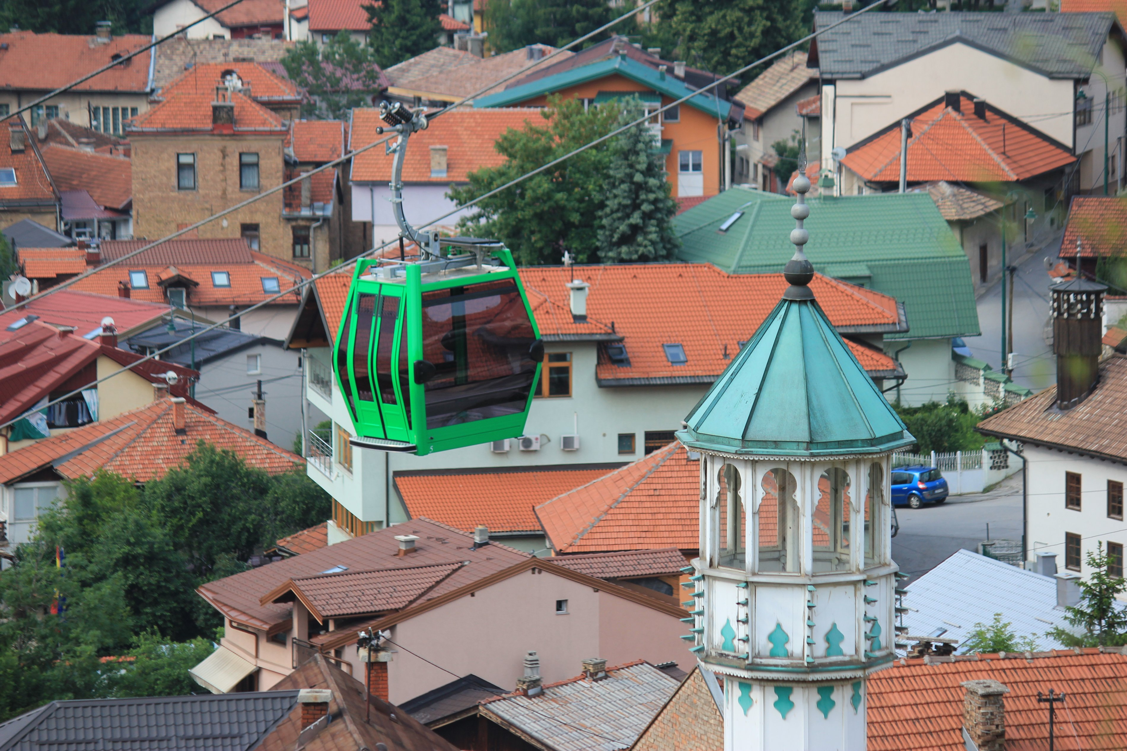 Trebević Cable Car in Sarajevo with a minaret.